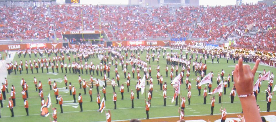 UT marching band and alumni band perform during rainstorm at KSU vs UT game 2007